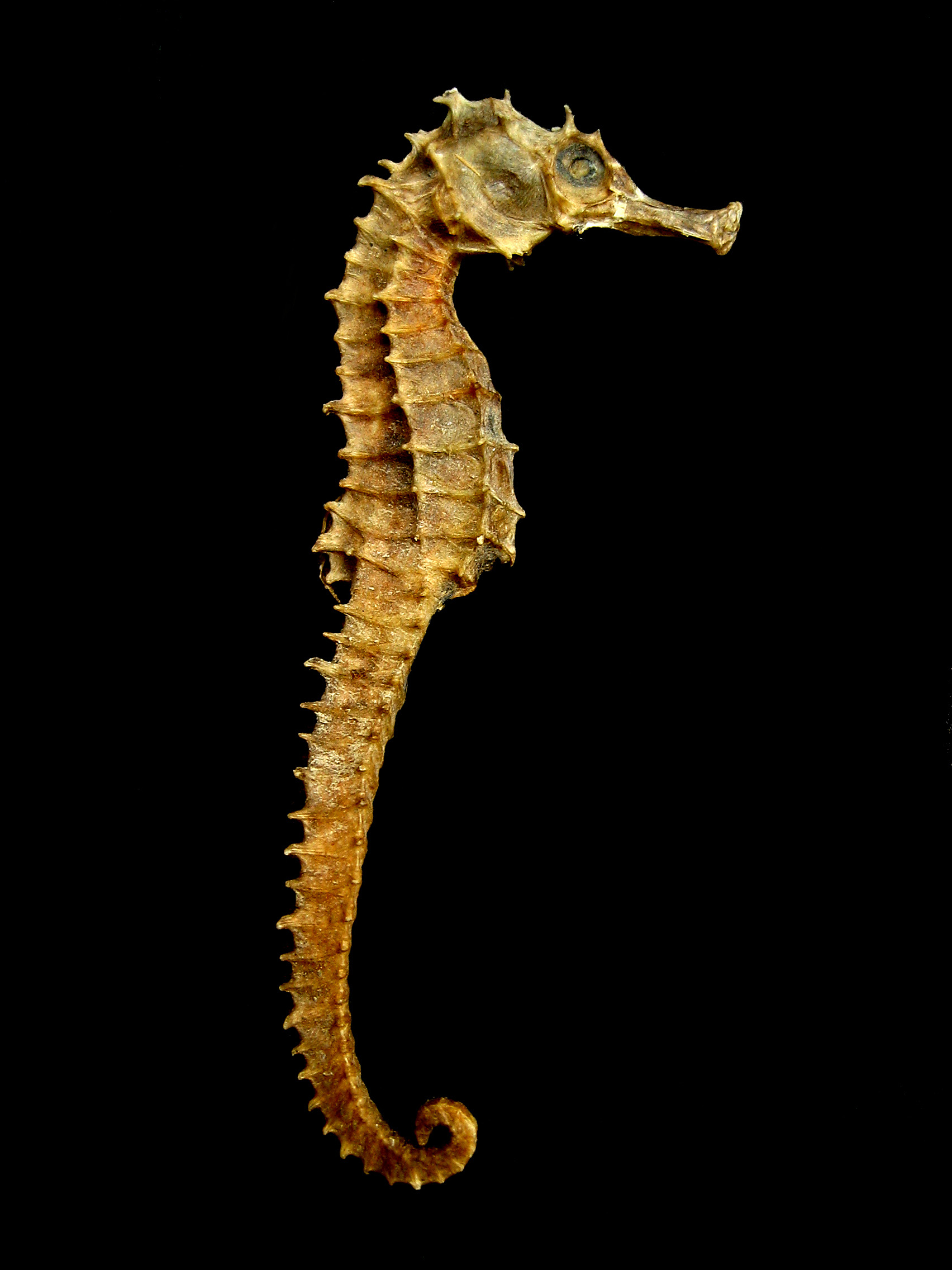 Macro of a mummified Seahorse (Hippocampus).